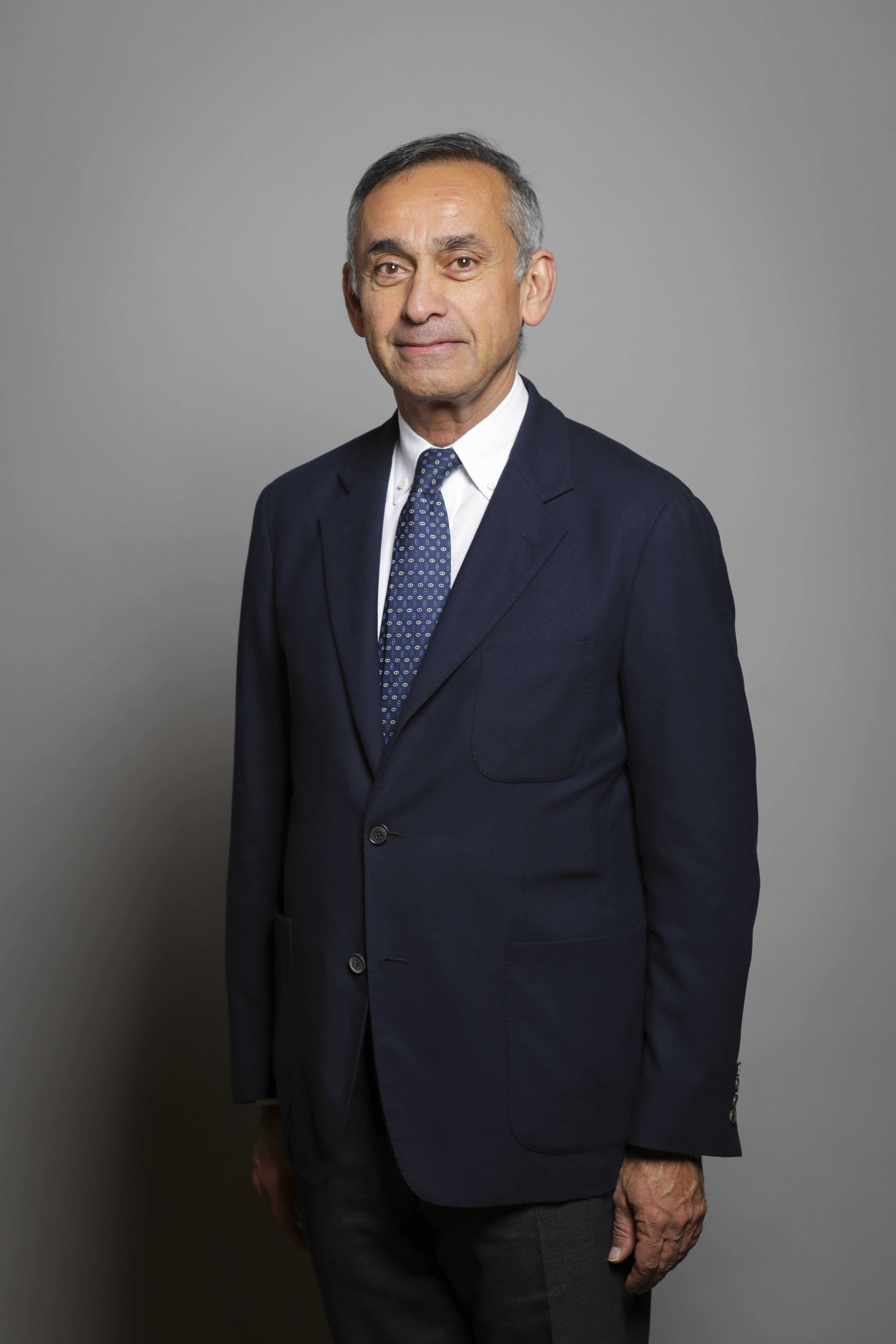 Official portrait of Lord Darzi of Denham Full sized portrait of Lord Darzi of Denham